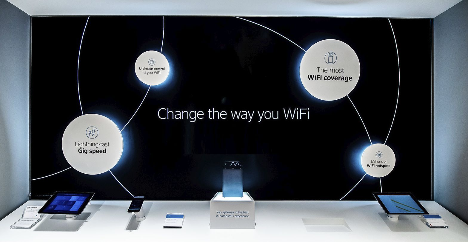 Promotional display featuring a WiFi router